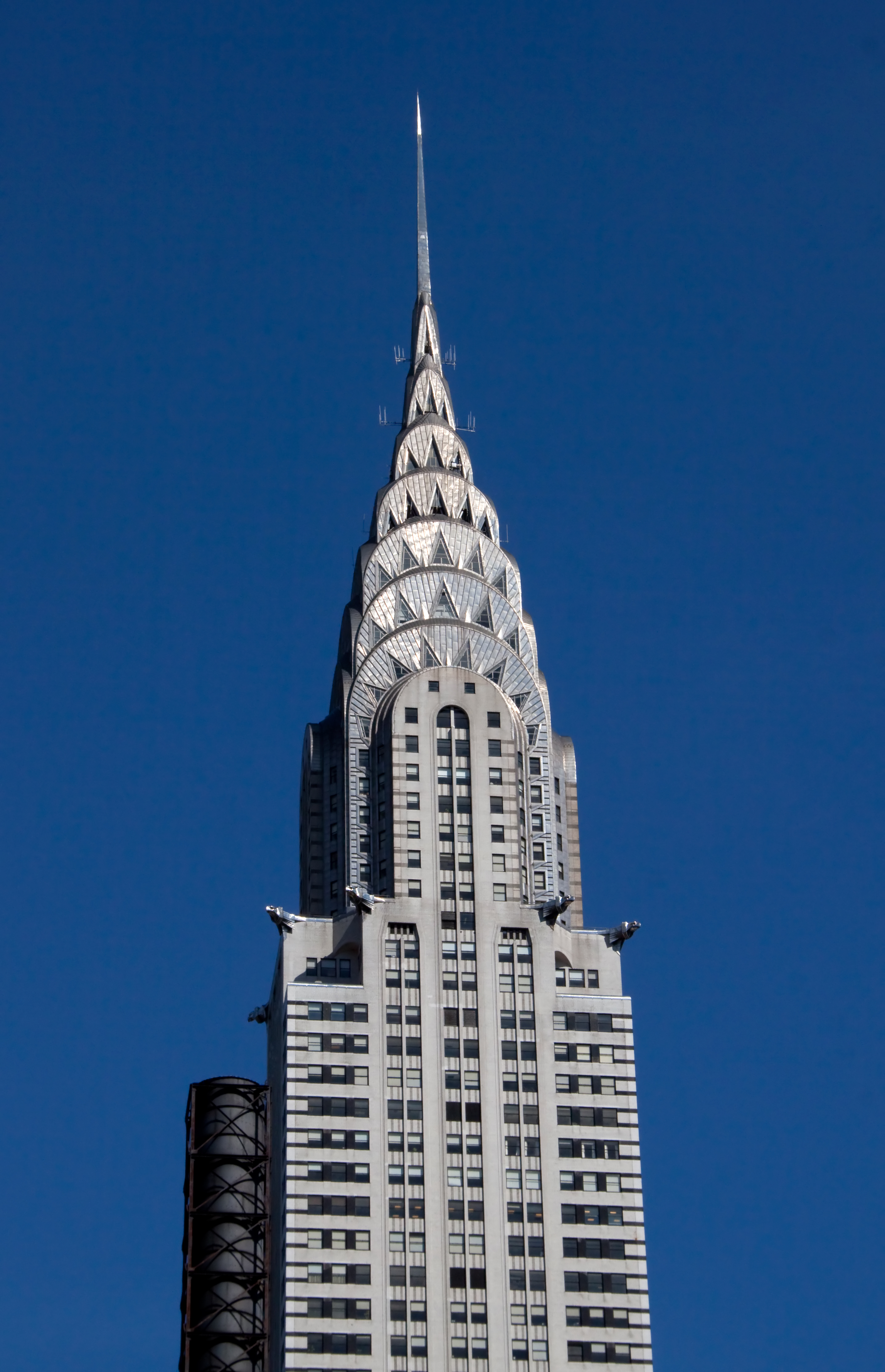 The quintessential Art Deco building